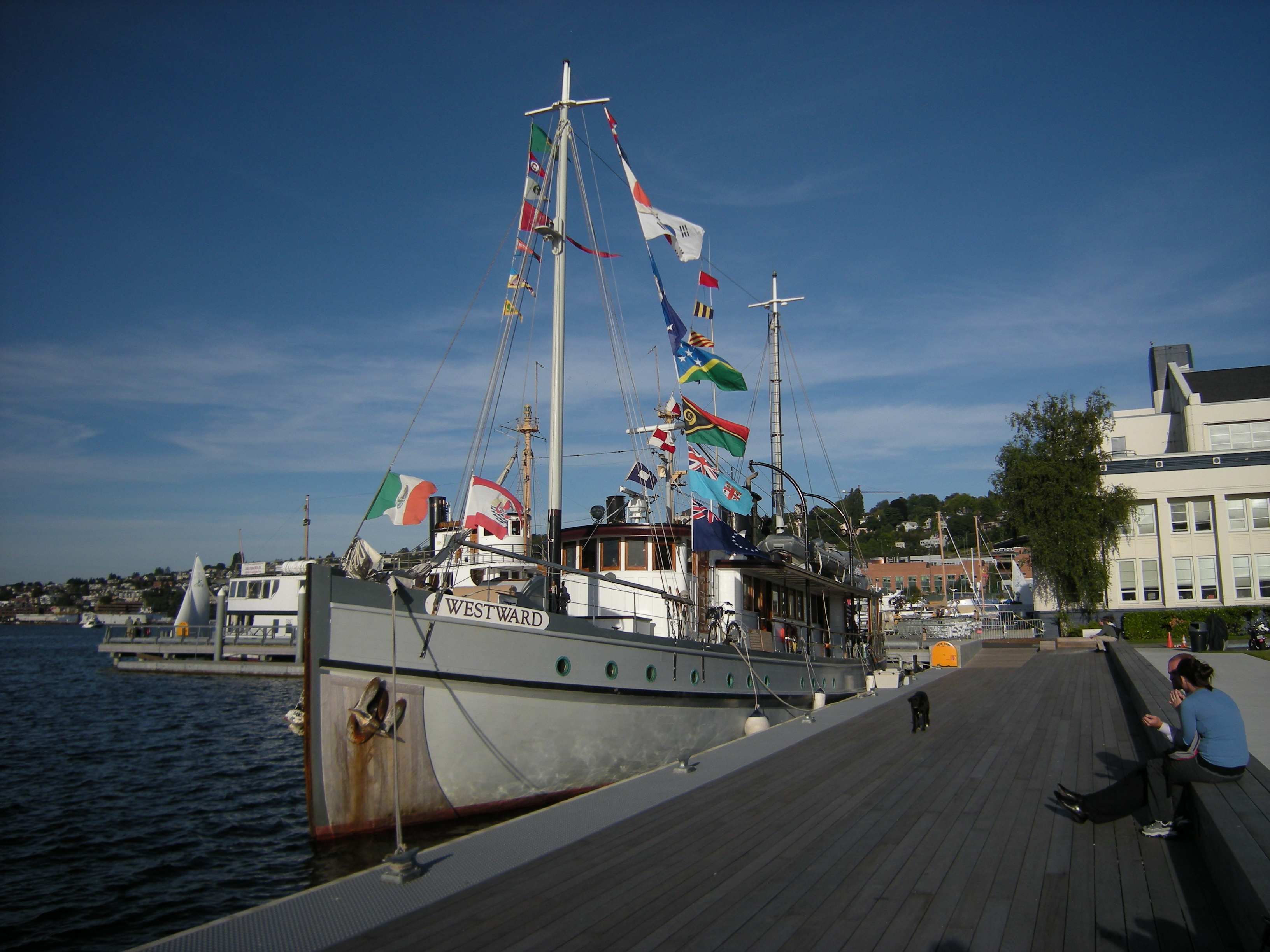 Motor yacht MV Westward docked at Historic Ships Wharf, Seattle, Washington between two tours of the Pacific. The Westward, which pioneered the Alaska cruise trade in the 1920s, is listed on the National Register of Historic Places.